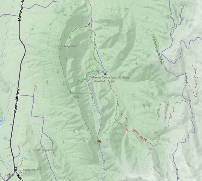 Topographic map of the Cathedral Range State Park. Data by OpenStreetMap, cartography by Steve Bennett.